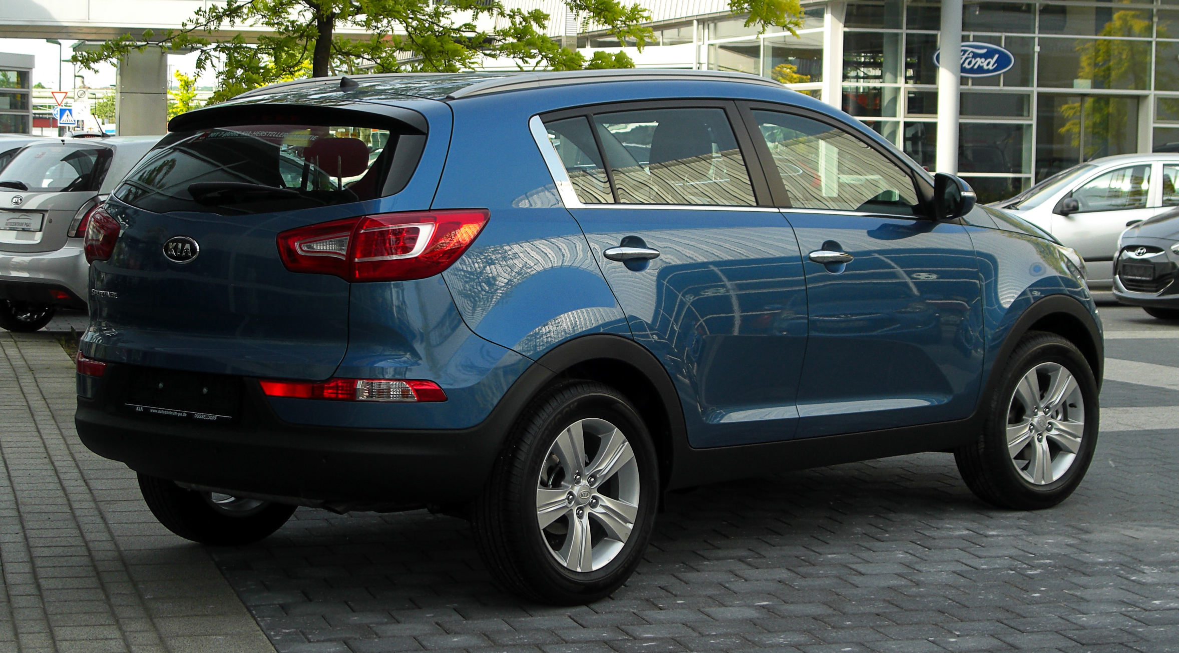 Kia Sportage Vision (III)